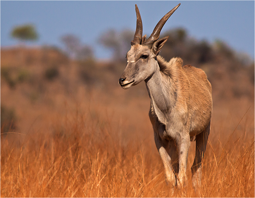 Southern eland, eland antelope or common eland (Taurotragus oryx), a savannah and plains antelope found in East and Southern Africa, it is the biggest antilope in Southern Africa. Bulls weighing an average of 500–600 kilograms.